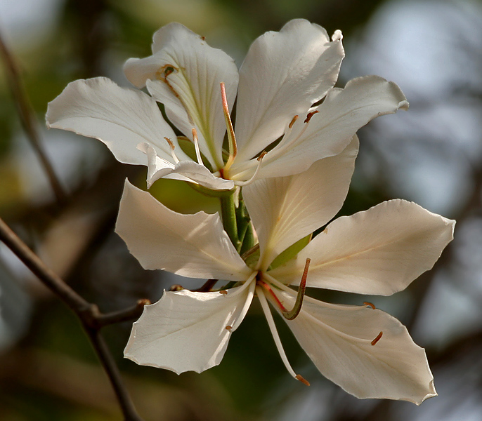 Kachnar, Raktakanchan, Mountain Ebony, Buddhist/ Variegated Bauhinia, Poor-man's Orchid tree, Koilar, Khwairal, Guiral, Barial, Kandan or Kural Bauhinia variegata var. candida in Hyderabad, India.